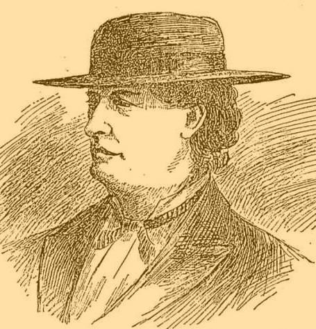 Temple Lea Houston (Oklahoma lawyer)